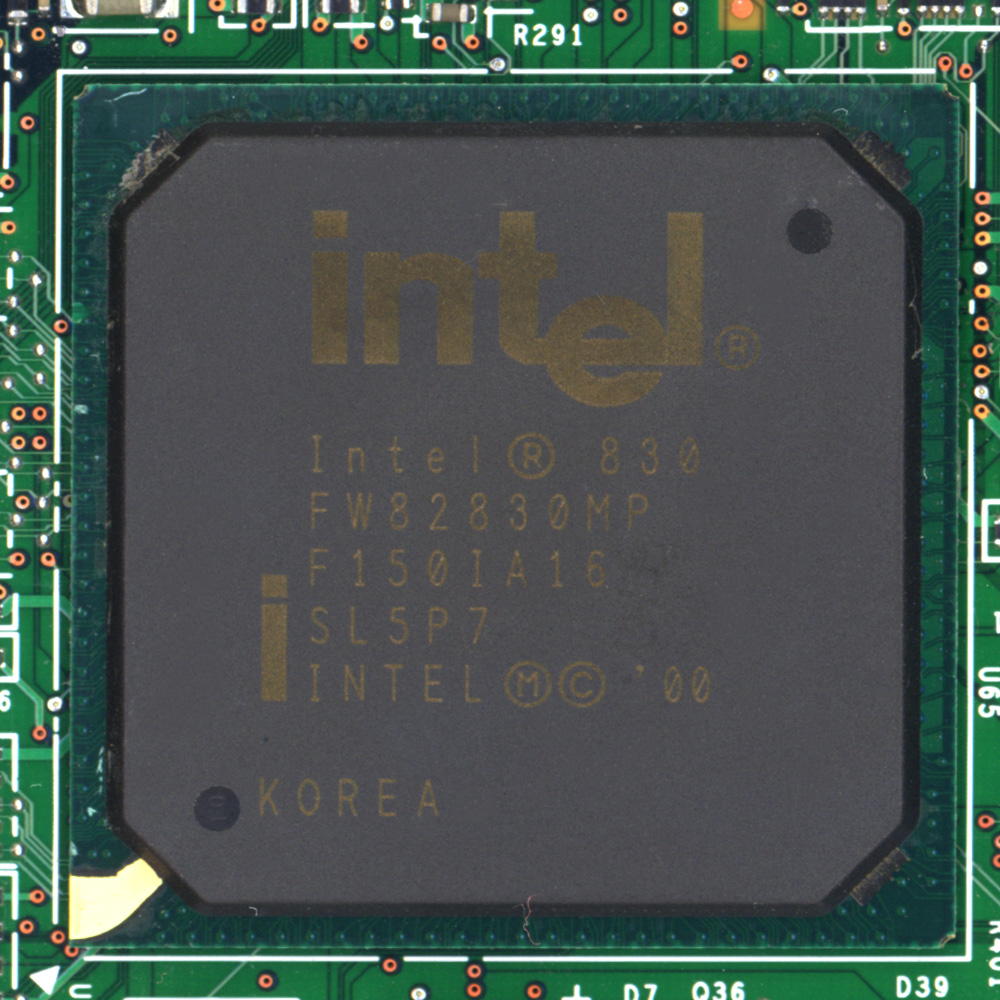 intel i830MP Mobile Chipset "Almador"